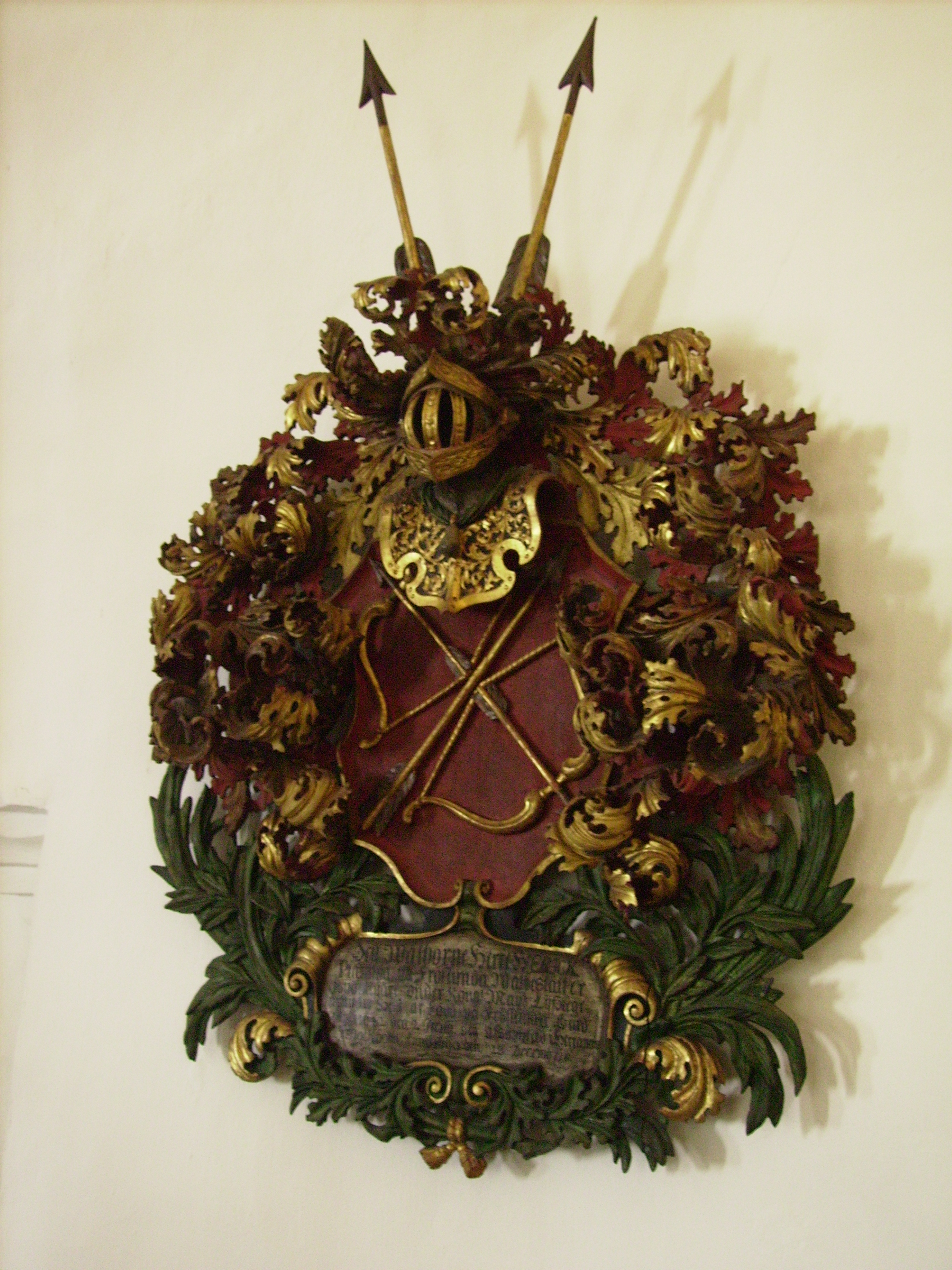 Picture of coat of arms at Alla Helgona kyrka in Nyköping